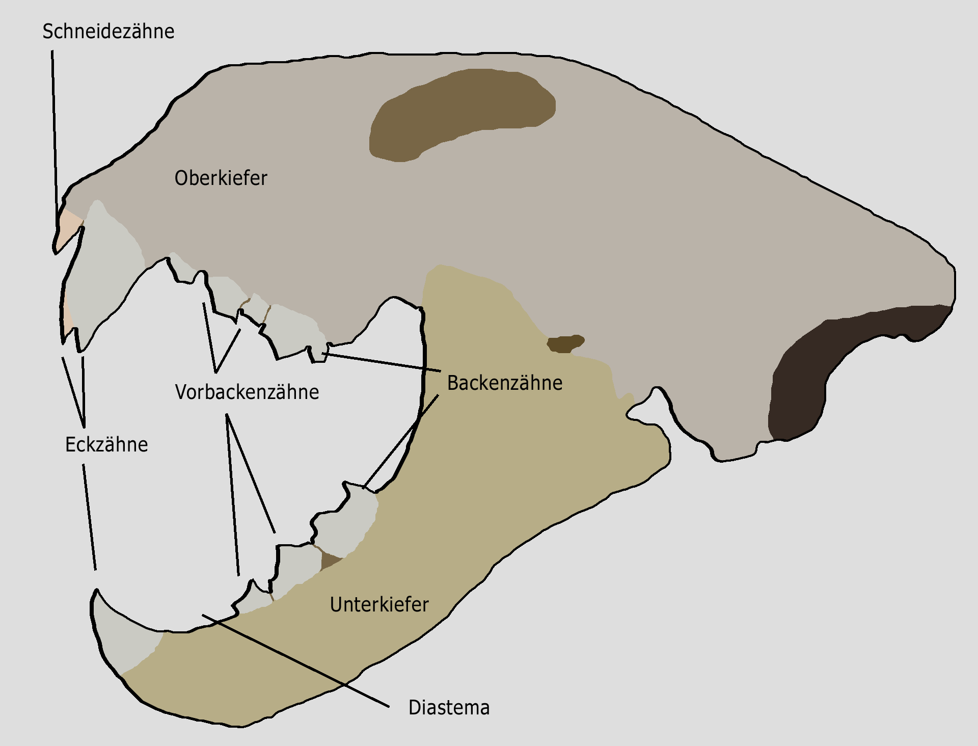 Skull of a Felidae/Pantherinae (Tiger) with German labels.